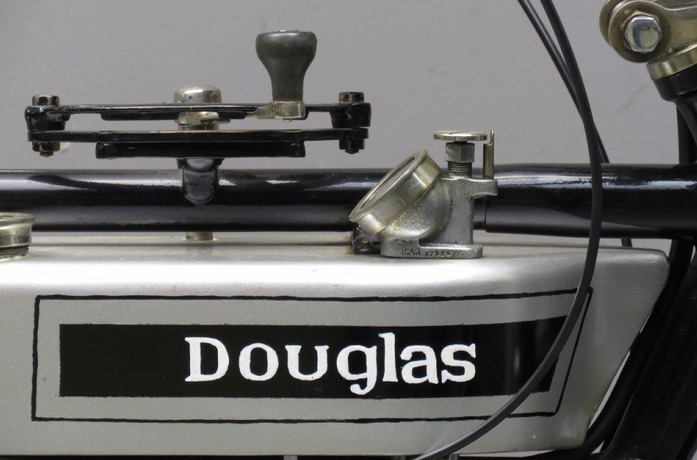 1922 Douglas "Tram Driver" Gear change